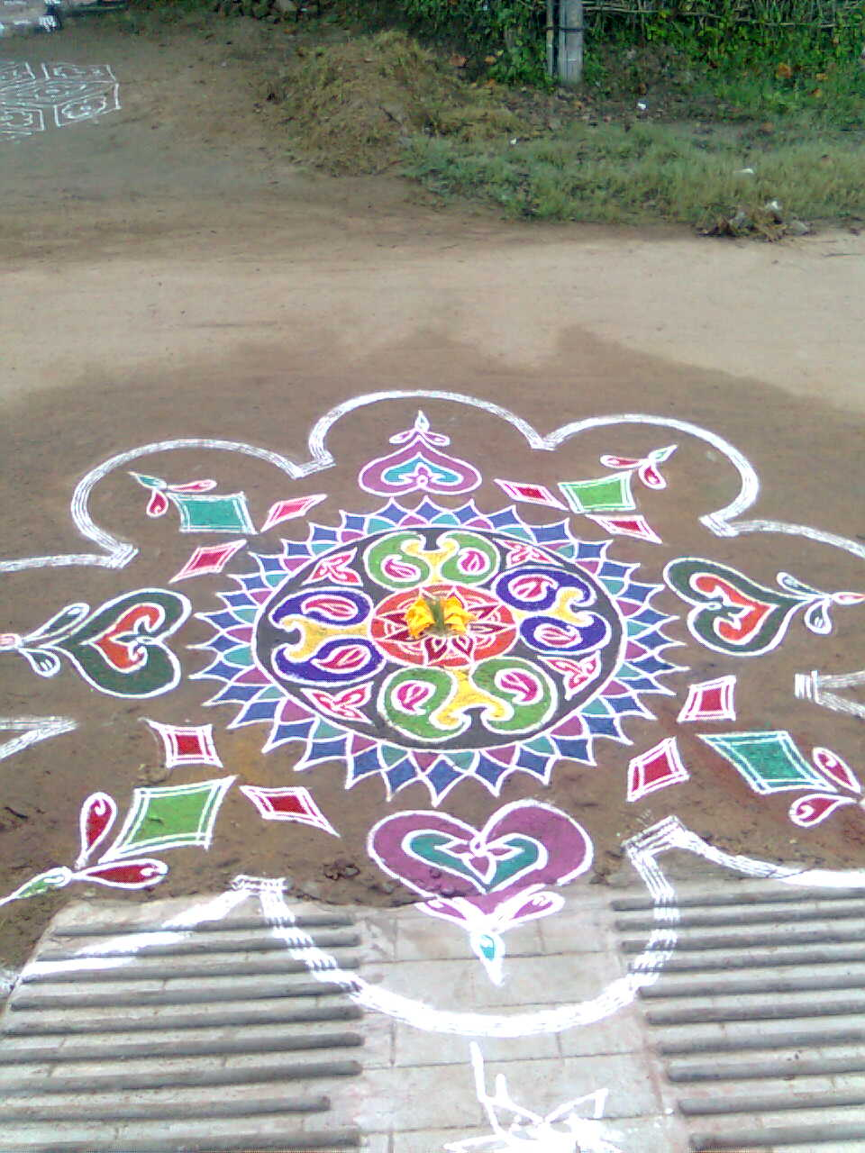 It is the wonderful tradition of TAMIL WOMEN...........during margazhi month every year.....